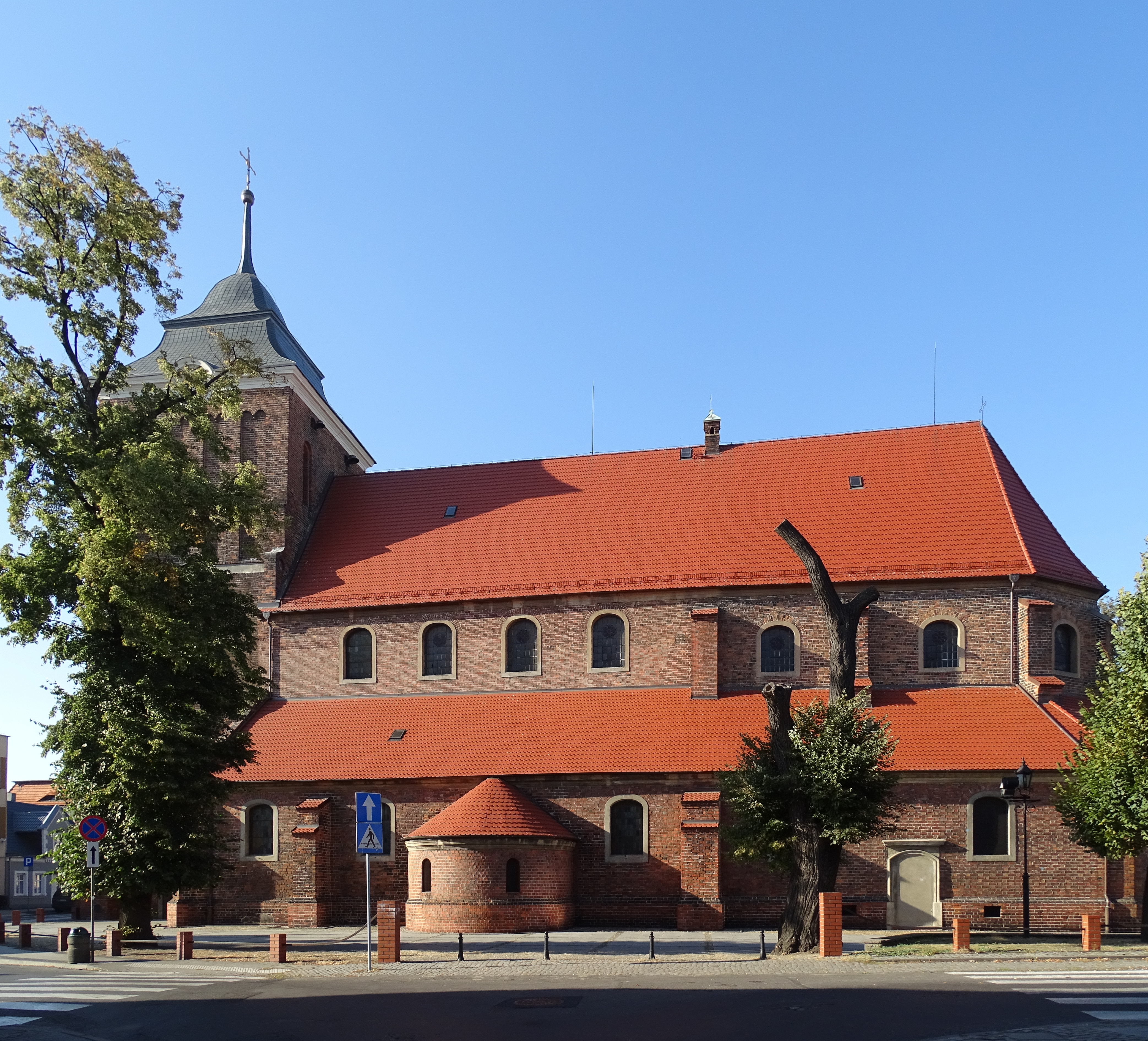 Września, Greater Poland, church of Virgin Mary and St Stanislaus. Built in the XV century.